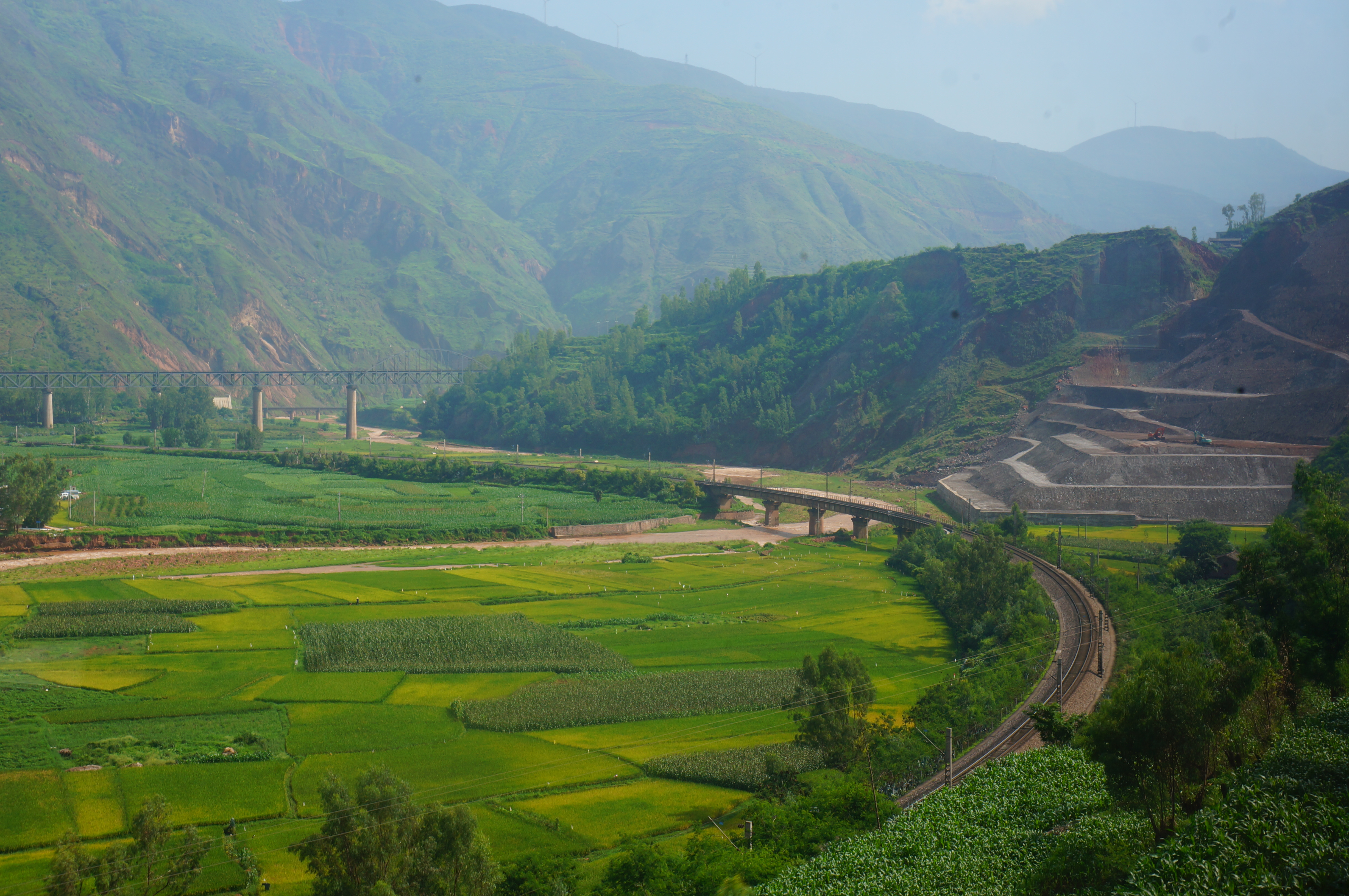 The spotting was canceled due to the landslide in Aidai